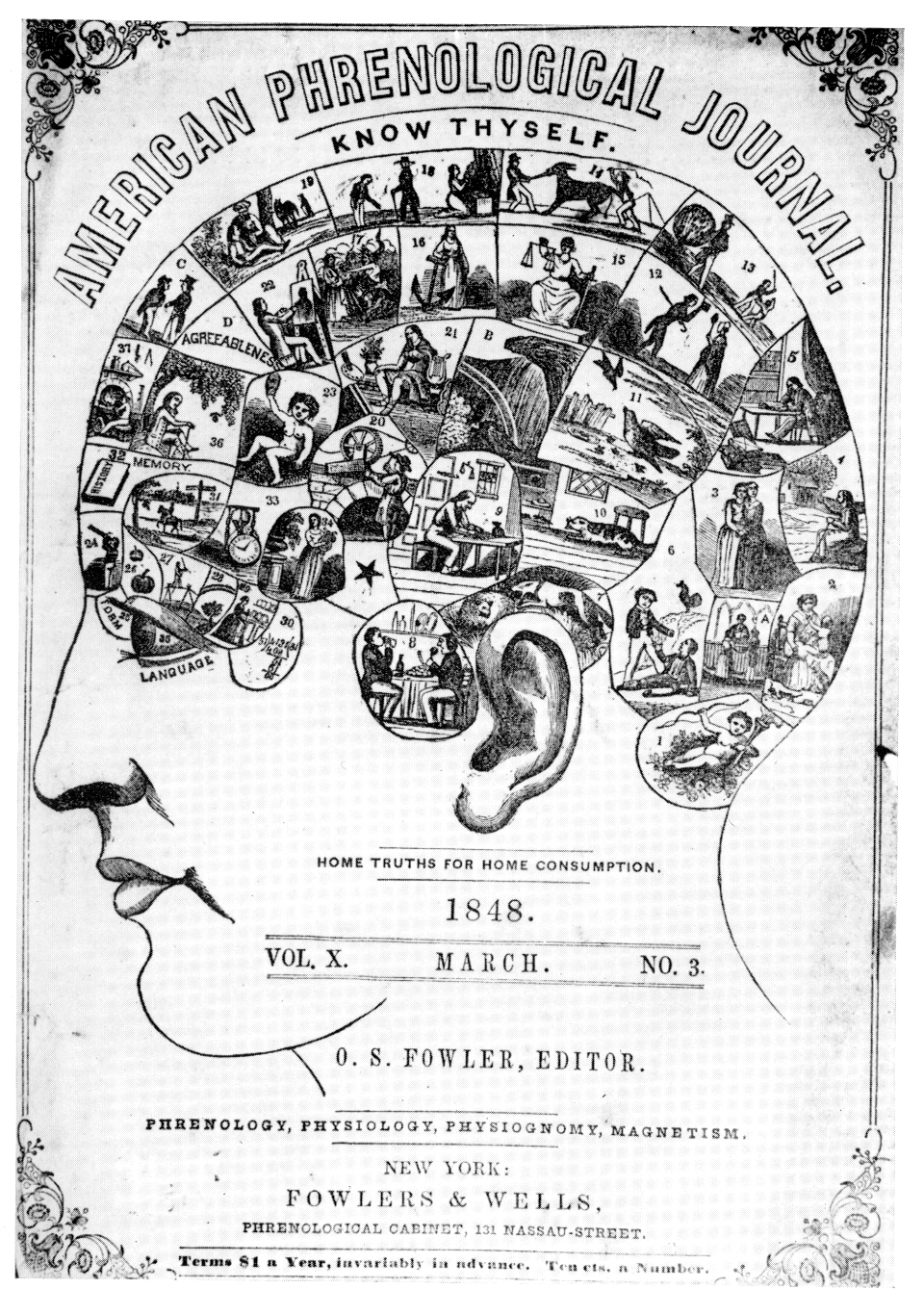 Cover of American Phrenological Journal from March 1848, volume 10, number 3